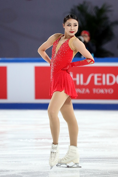 Yi Christy Leung at the 2019 Cup of China - SP